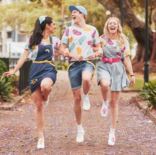 The Beanies